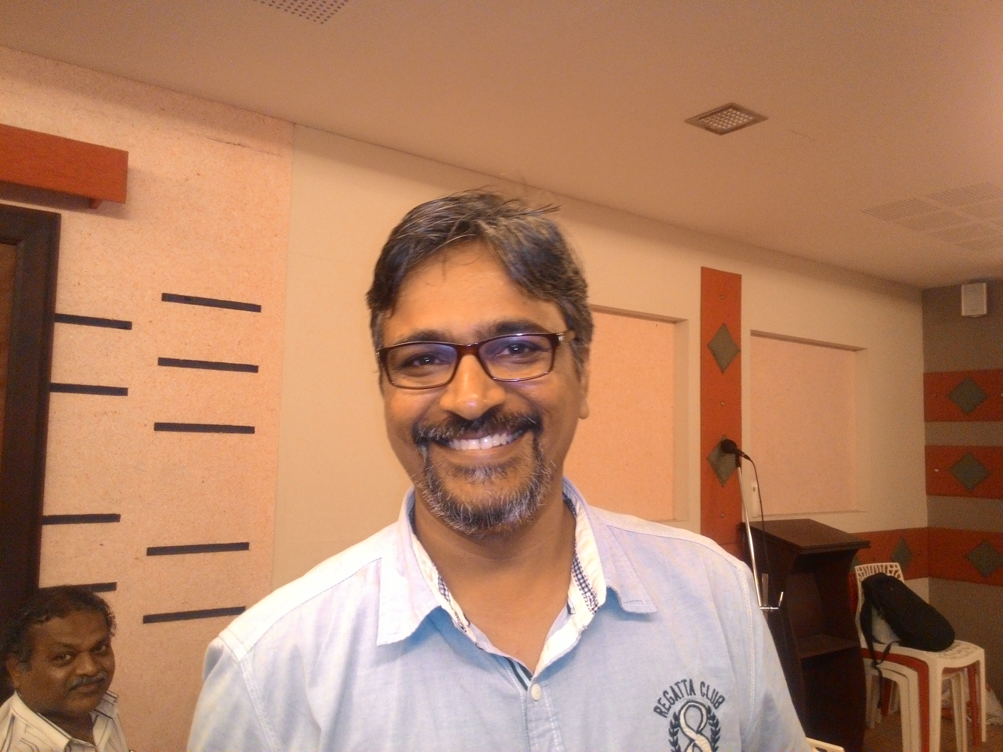 Documentary film maker,Tamilnadu,India